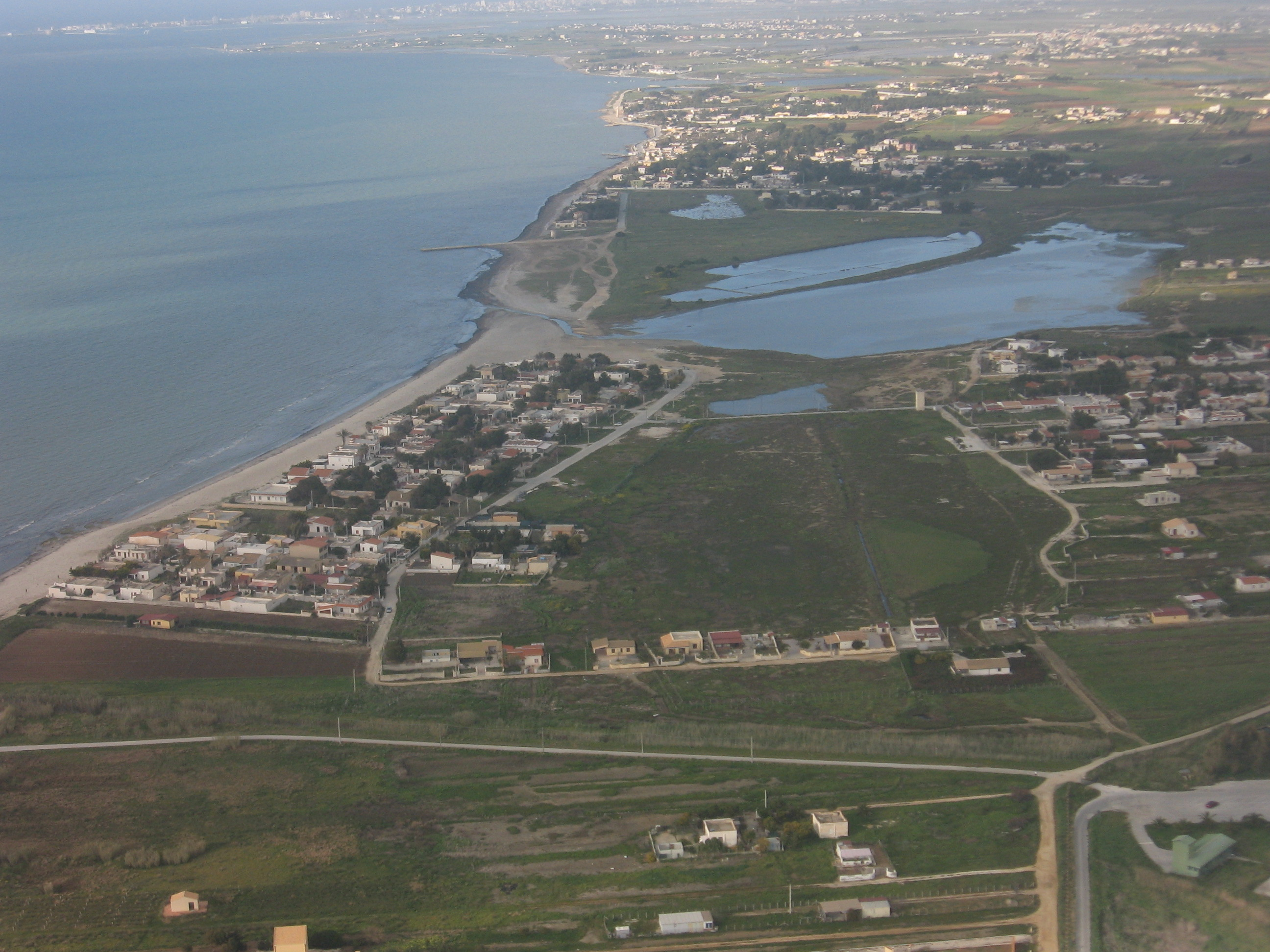 Tritoni and Lido Marausa near Birgi, Trapani, Sicily